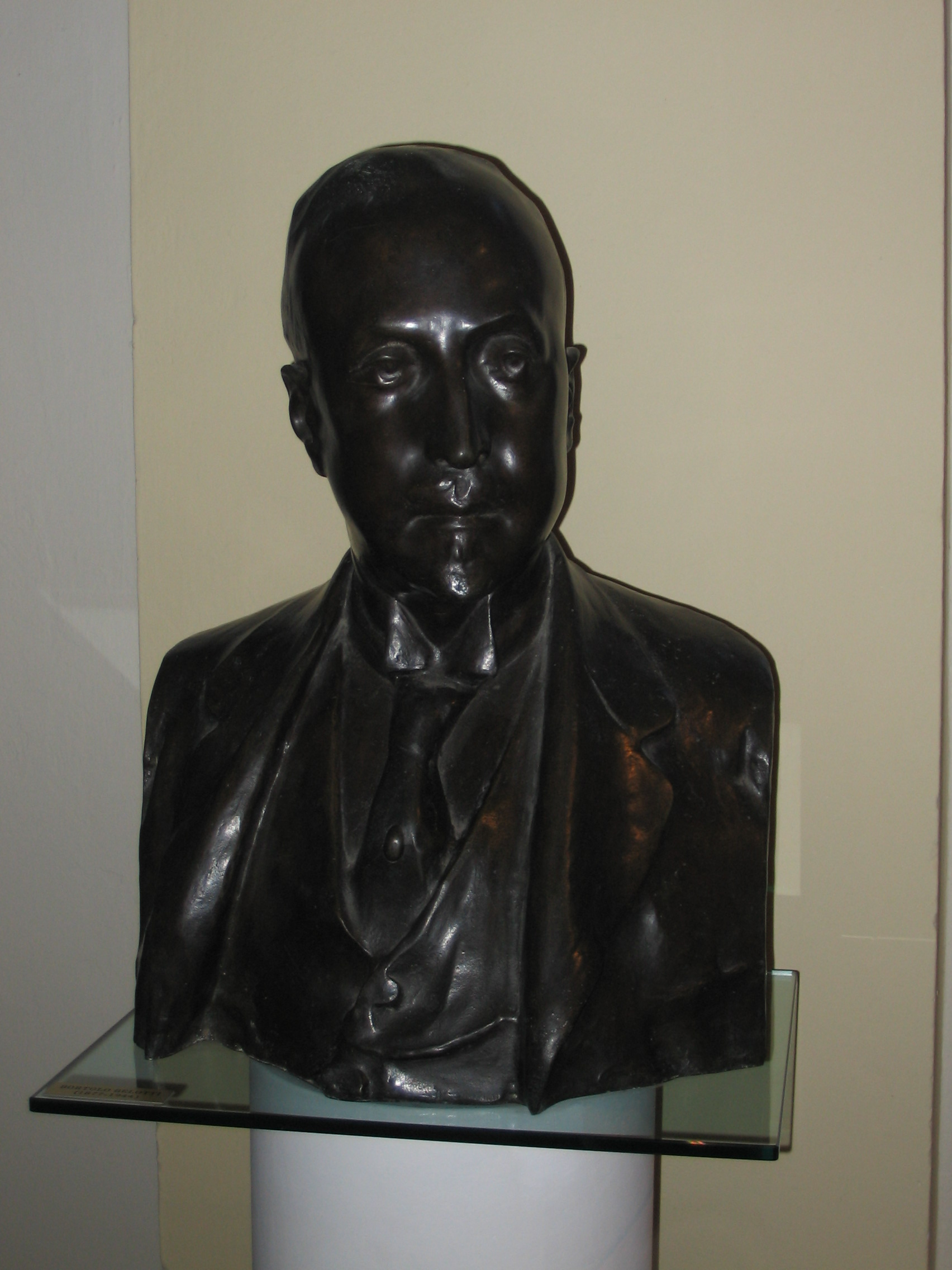 Bergamo, Italy - Palazzo Nuovo - Bust of Bortolo Belotti